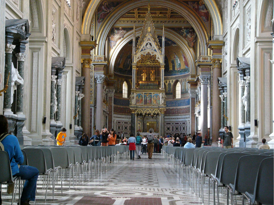 Naples.